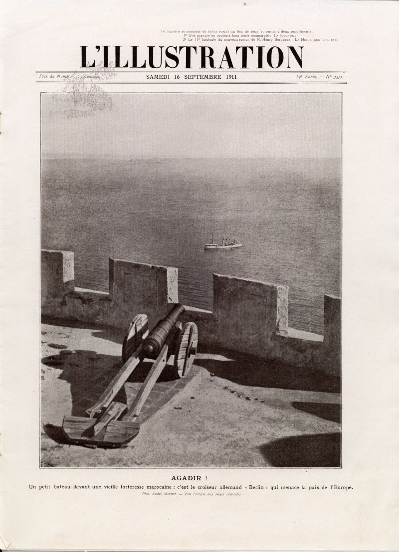 German cruiser «Berlin» under the Agadir fortress, Morocco. Picture by André Morizet.